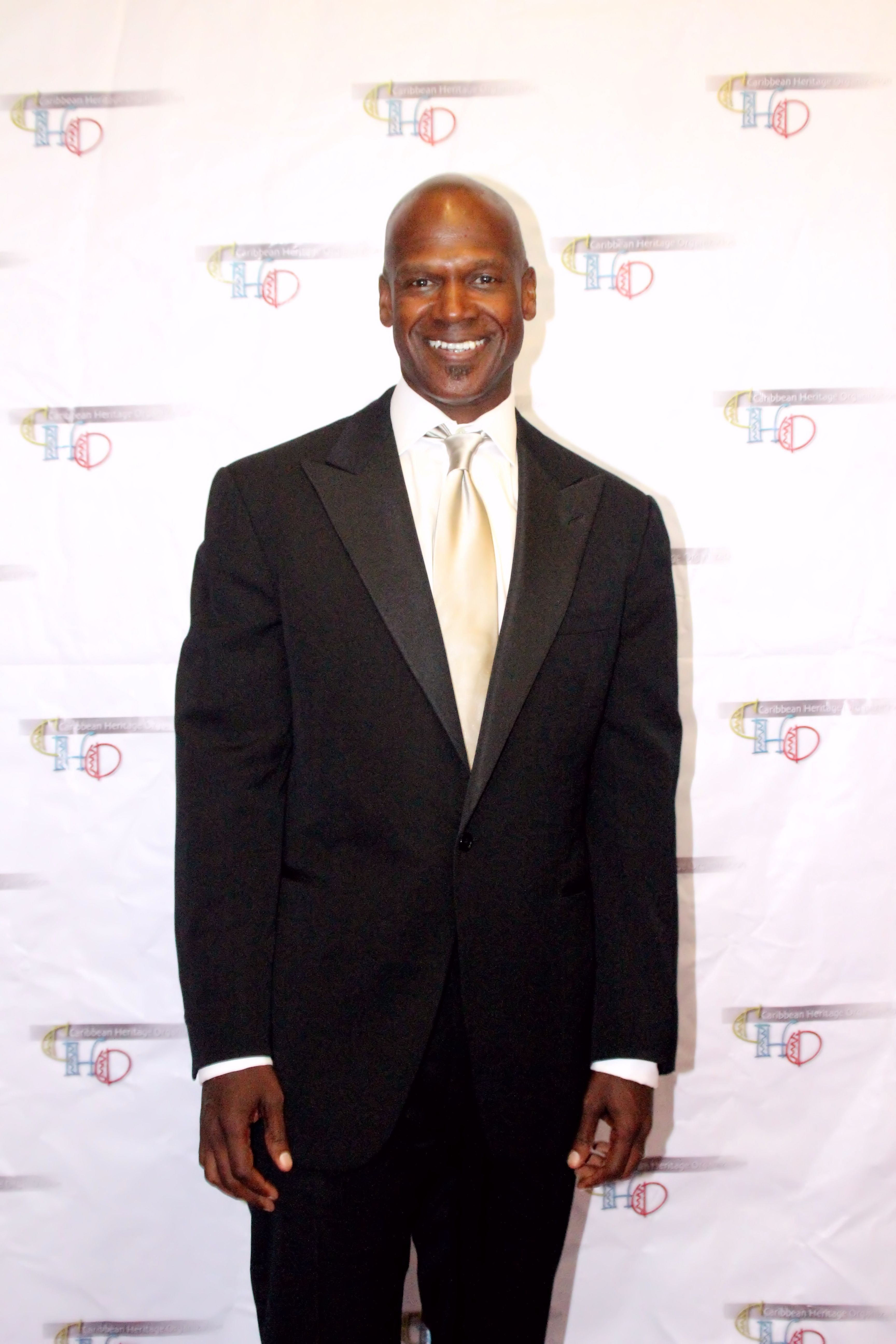 Screenwriter Rob Edwards at the Caribbean Heritage Organization Awards Dinner Other information Rob Edwards and his staff hired me to write his Wikipedia page which can be found in the process of revision at They sent me the photo to use on the page and assured me that he owns the photo.